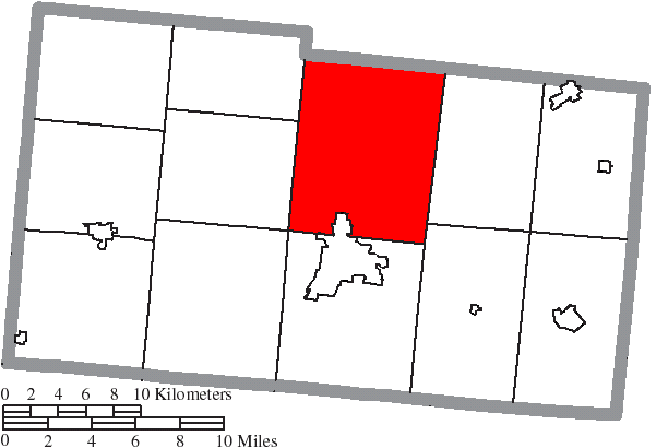 Map of the municipal and township boundaries of Champaign County, Ohio, United States, as of the 2000 census, with the location of Salem Township highlighted. Township borders are shown only in unincorporated areas in order to differentiate incorporated and unincorporated areas more clearly.